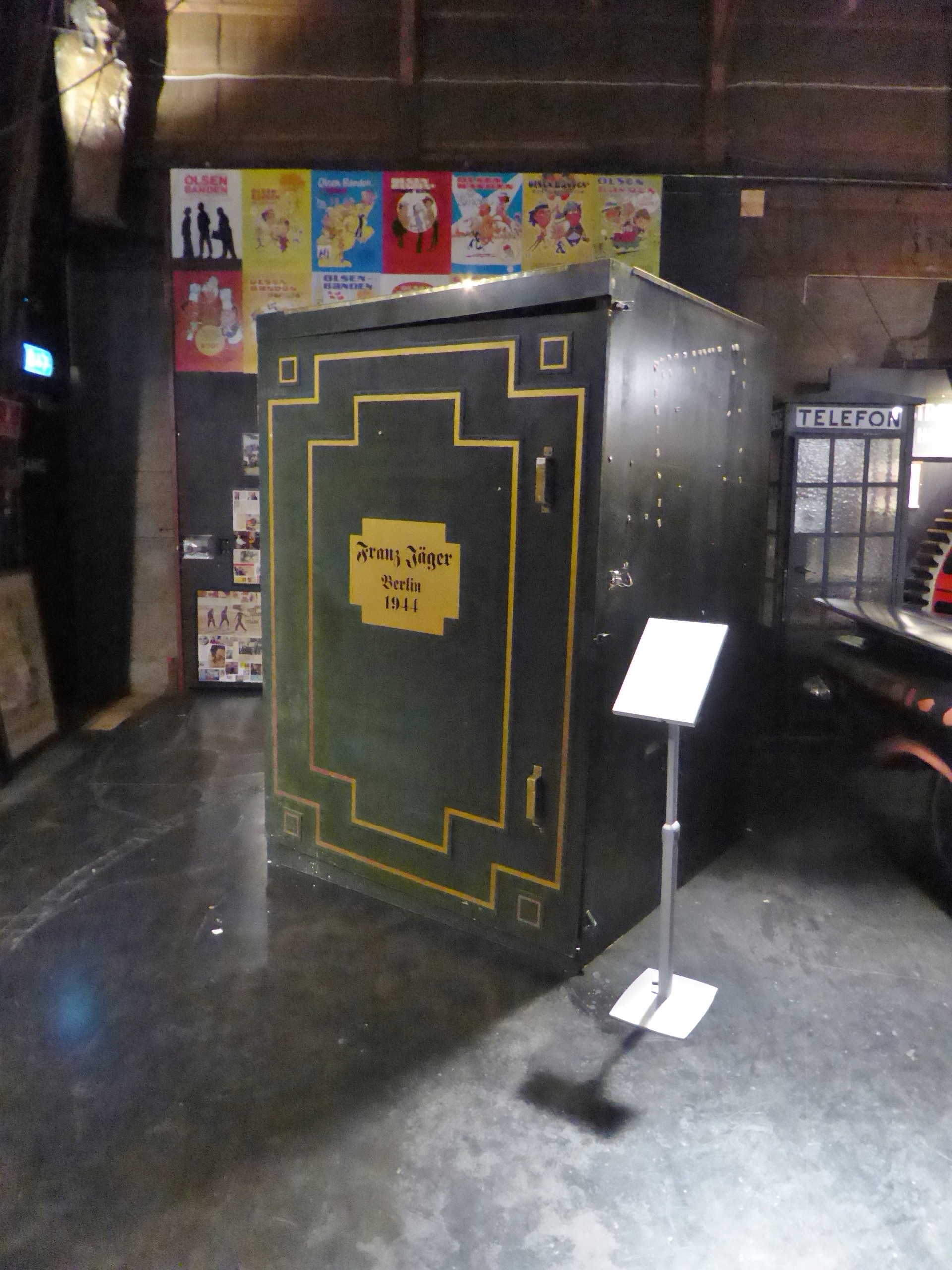 Oversize recreation of a Franz Jäger safe from the Danish Olsen-banden film series in a special exhibition at Nordisk Film in Copenhagen. It was made so that the visitors could take selfies with it.